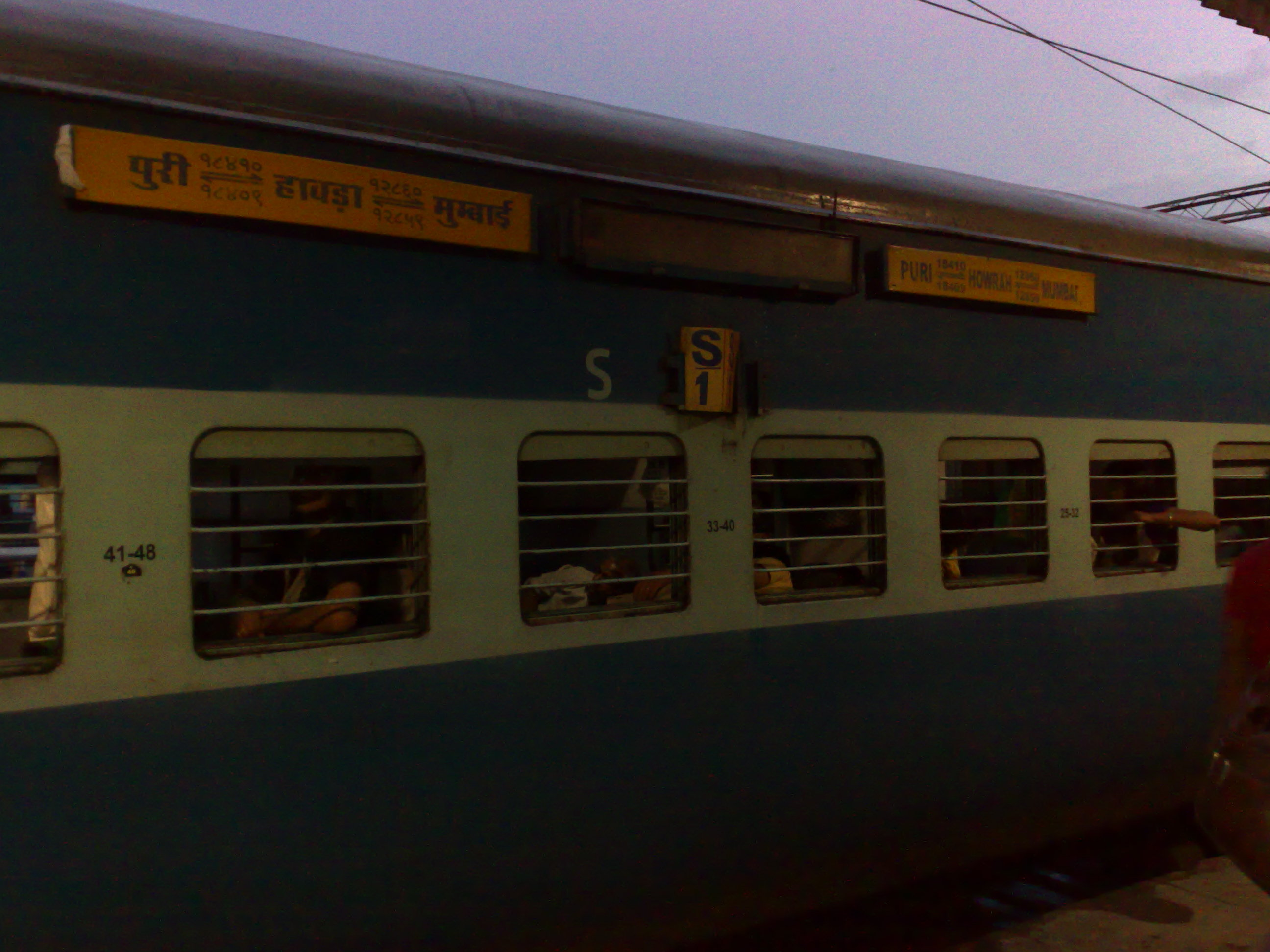 Coach of 12859 Geetangali Express